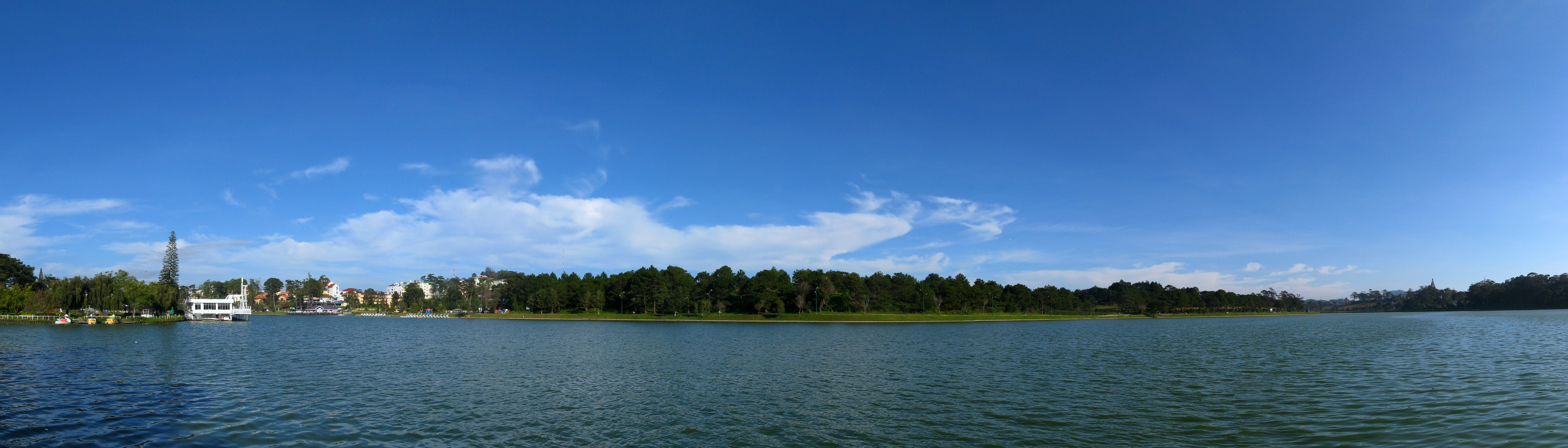 Chụp hồ Xuân Hương lúc sáng sớm